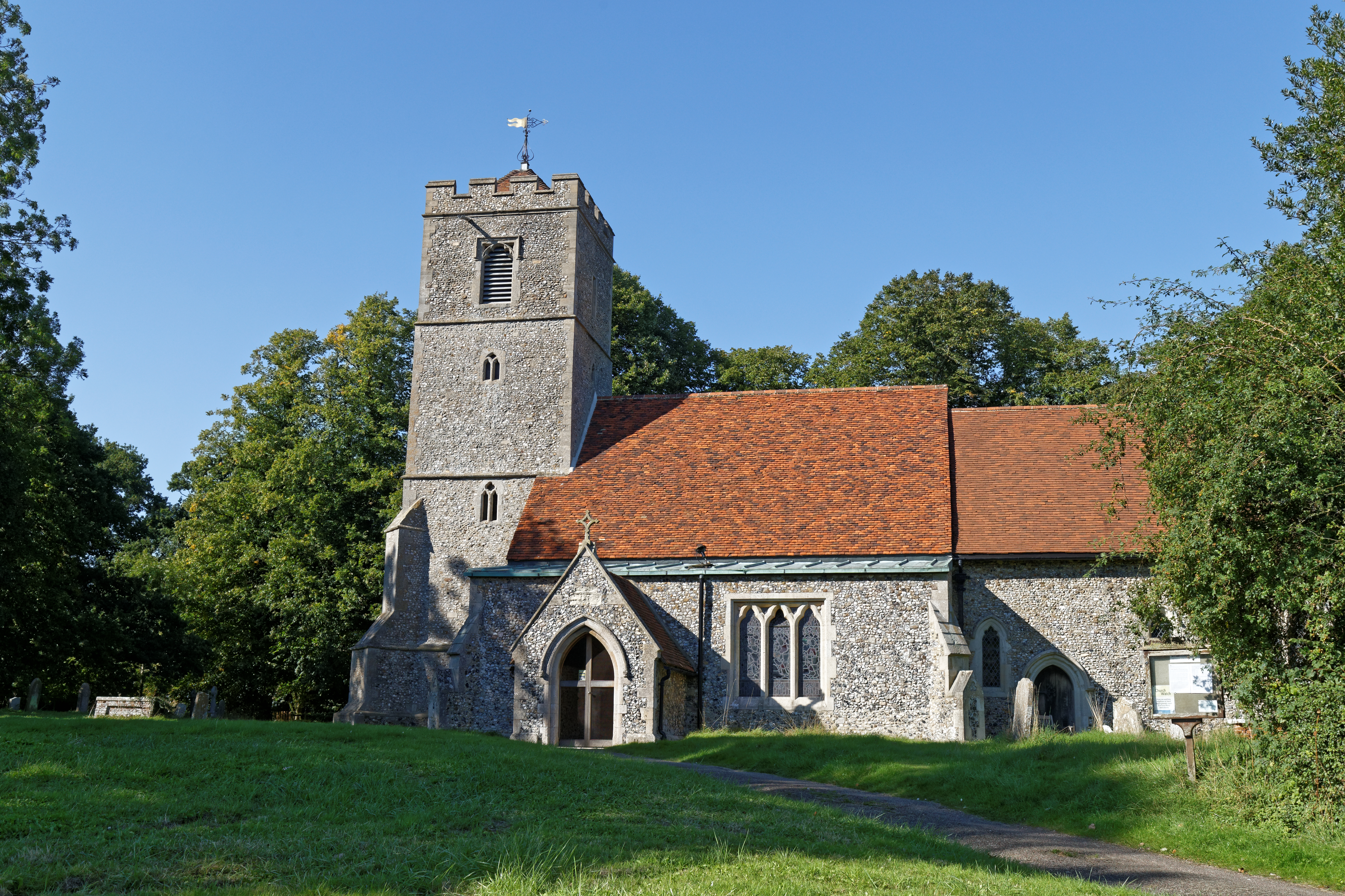 All Saints' parish church, Rickling, Essex, England, seen from the south.Software: RAW file lens-corrected, optimized and converted to JPEG with DxO OpticsPro 10 Elite, and likely further optimized and/or cropped and/or spun with Adobe Photoshop CS2.